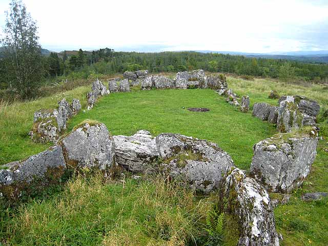 Deer Park Court Tomb A fine megalithic tomb on a hill-top to the east of Sligo.